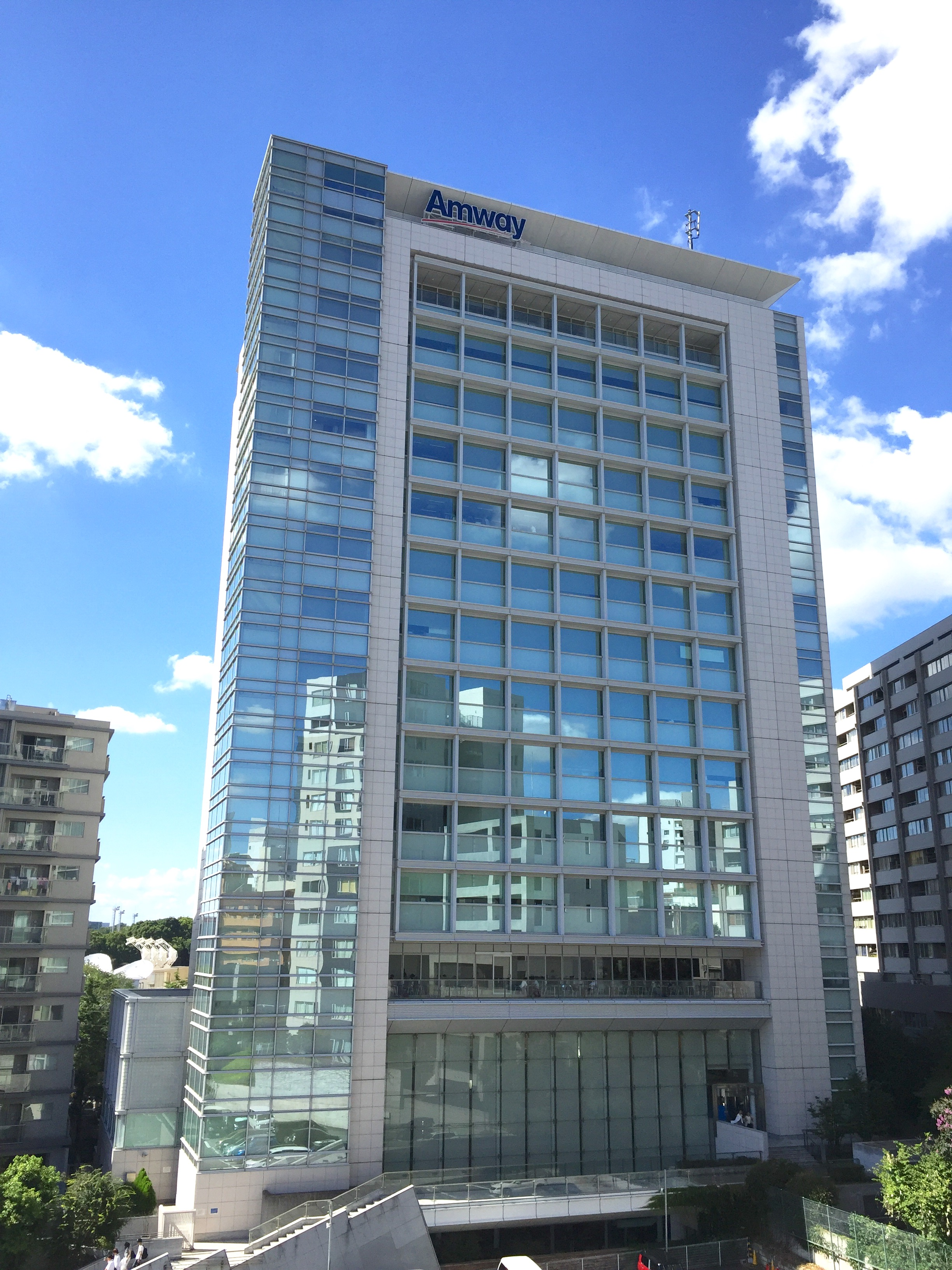 The Head Office of Amway Japan